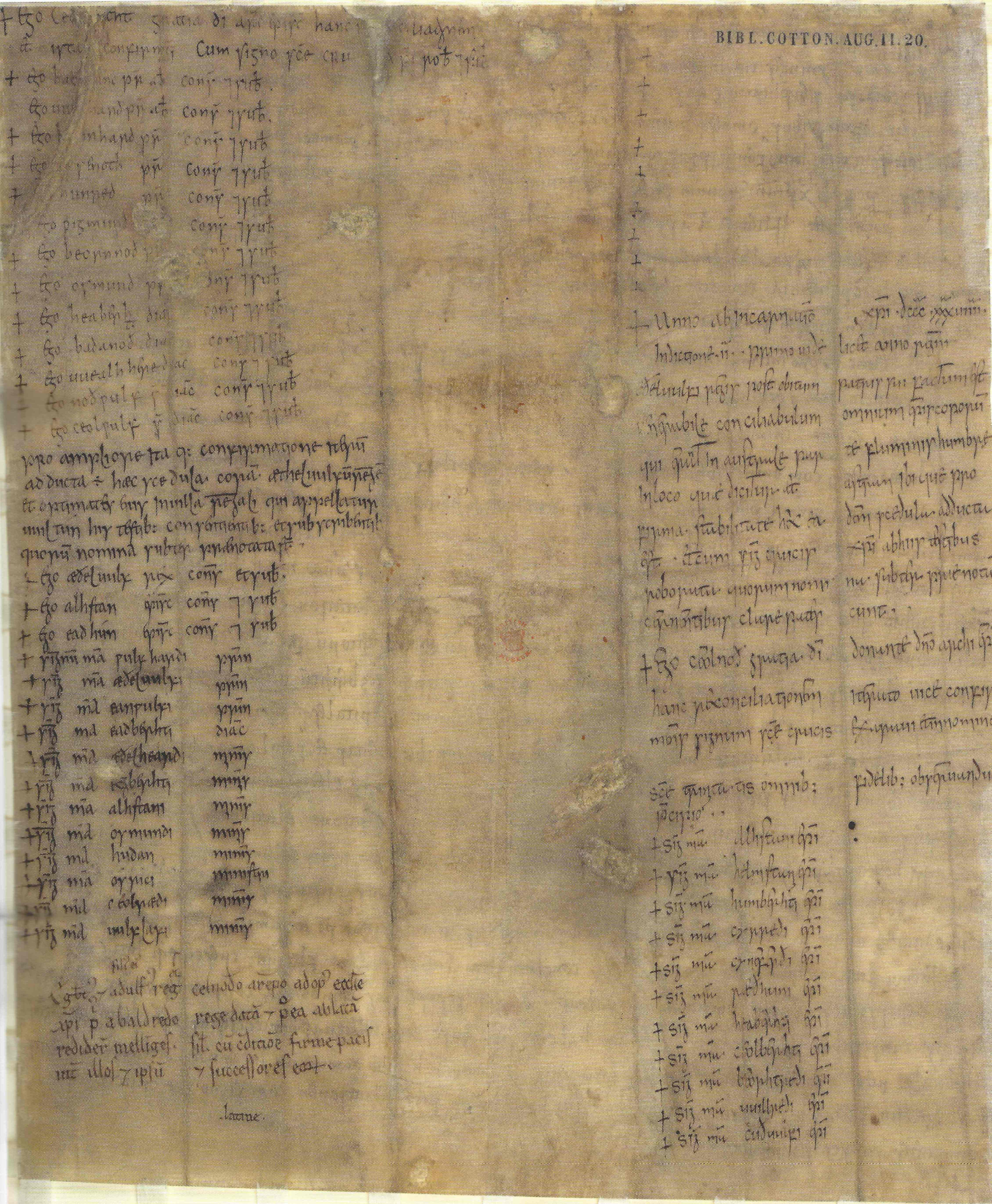 Charter S 1438, Council of Kingston 838. Ceolnoth, Archbishop of Canterbury assured King Ecgberht of the friendship of himself and his community for the king and his successors.